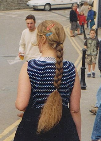 Woman with long brown braided hair Ireland